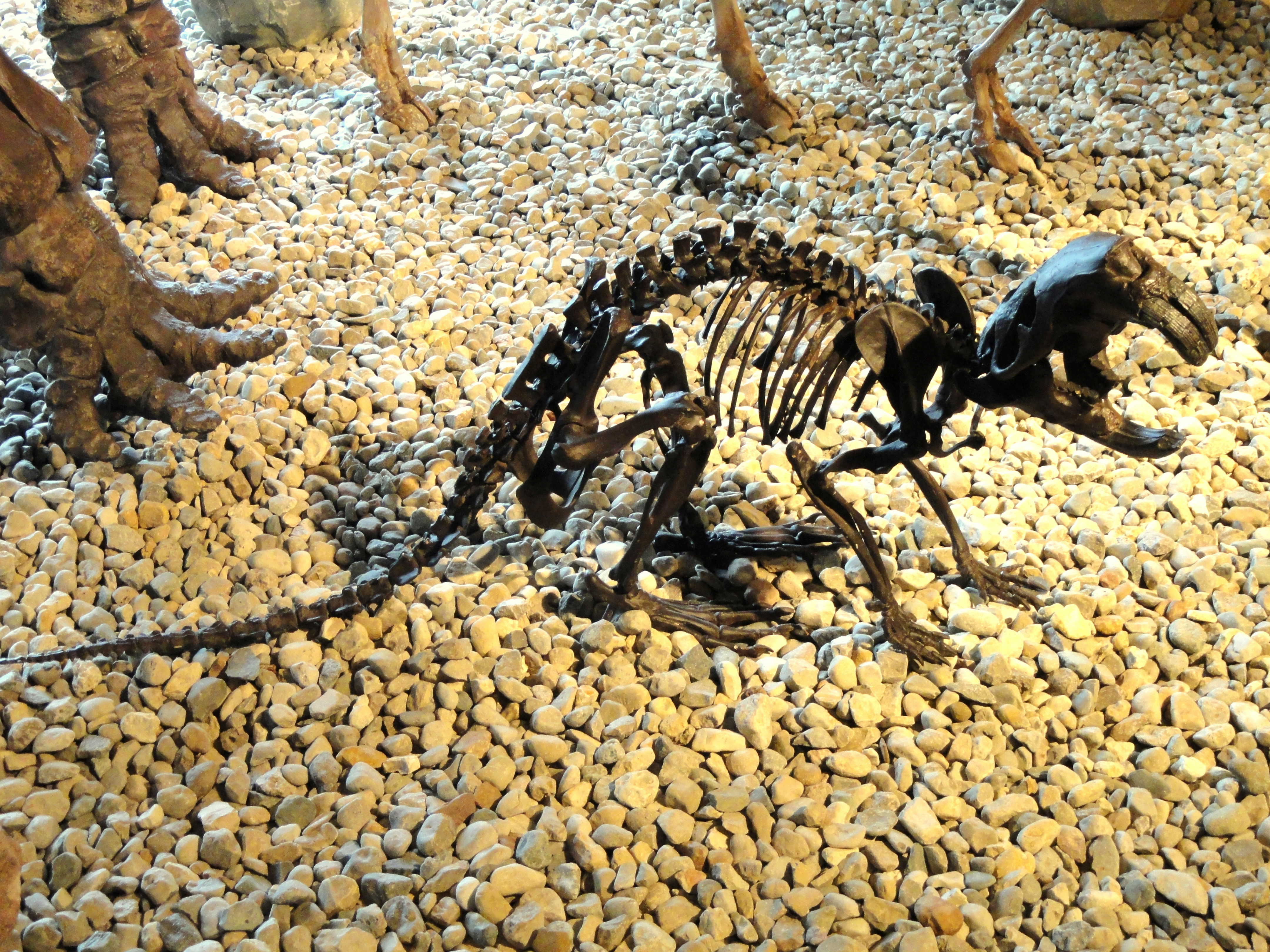 Cast of Castoroides ohioensis (giant beaver) skeleton, assembled from various specimens found in Randolph County, Indiana. Indiana State Museum, 650 West Washington Street, Indianapolis, Indiana, USA.